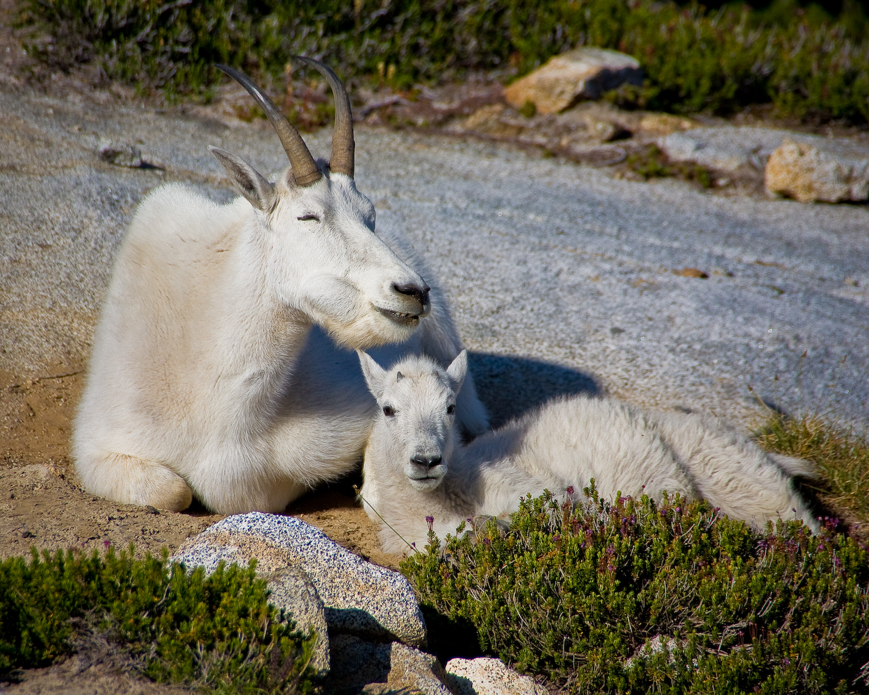 View On Black. The goat and kid that kept wandering around my camp site. Taken on a trip to the Robin Lakes Area, Alpine Lakes Wilderness, Washington in August 2009.